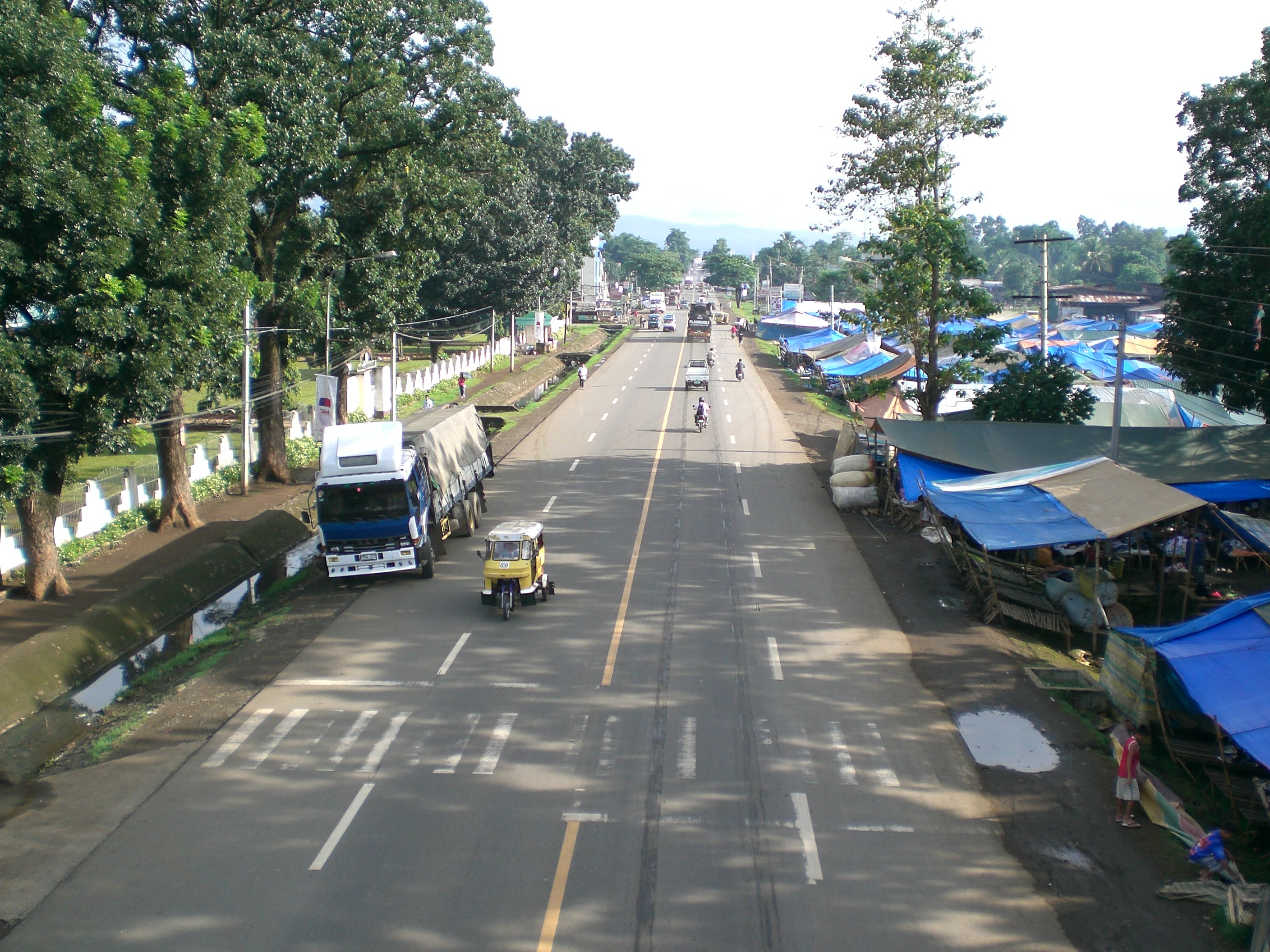 Sayre Highway going to Malaybalay, Valencia City overpass